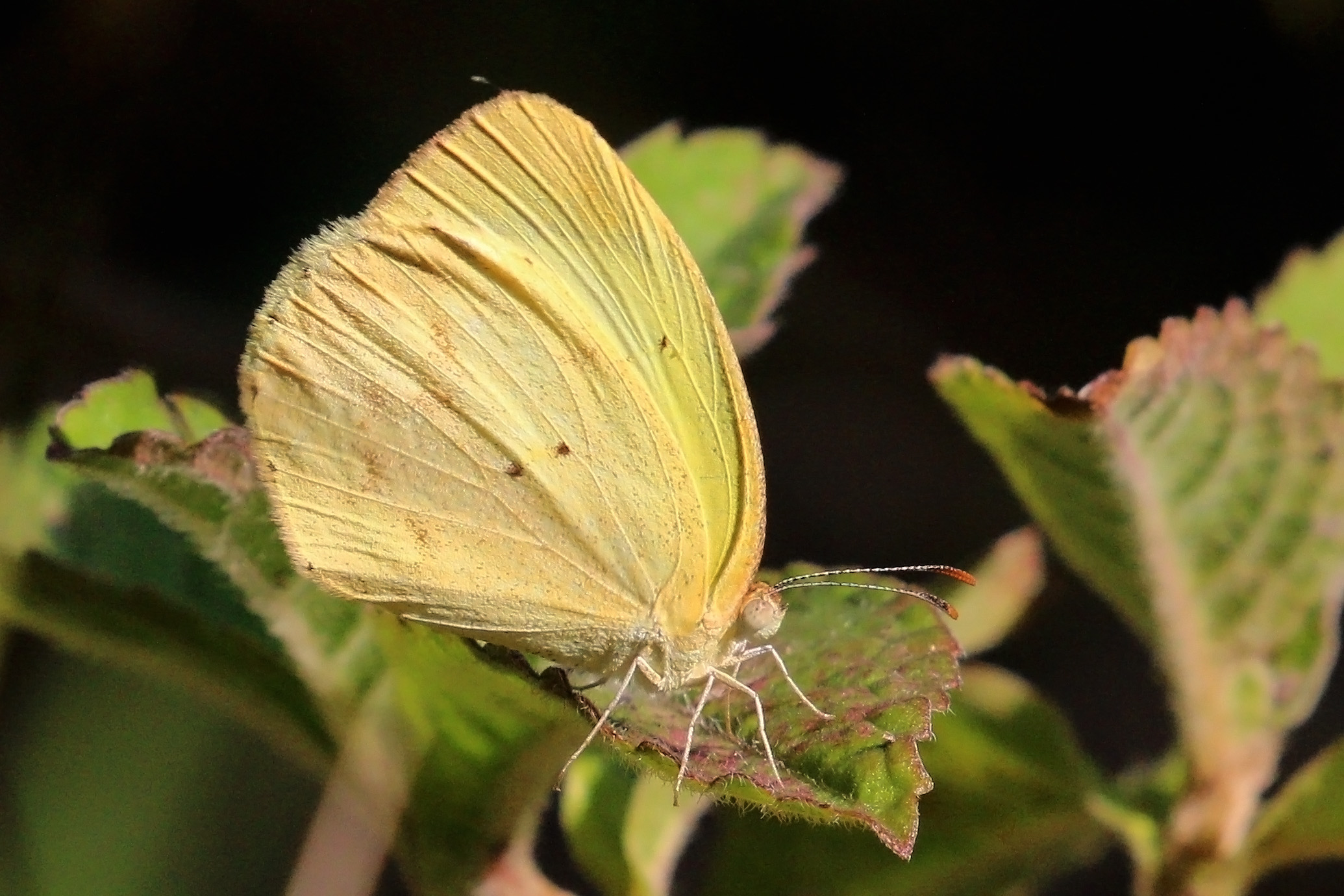 Banded yellow (Eurema elathea obsoleta), Cristalino River, Southern Amazon, Brazil